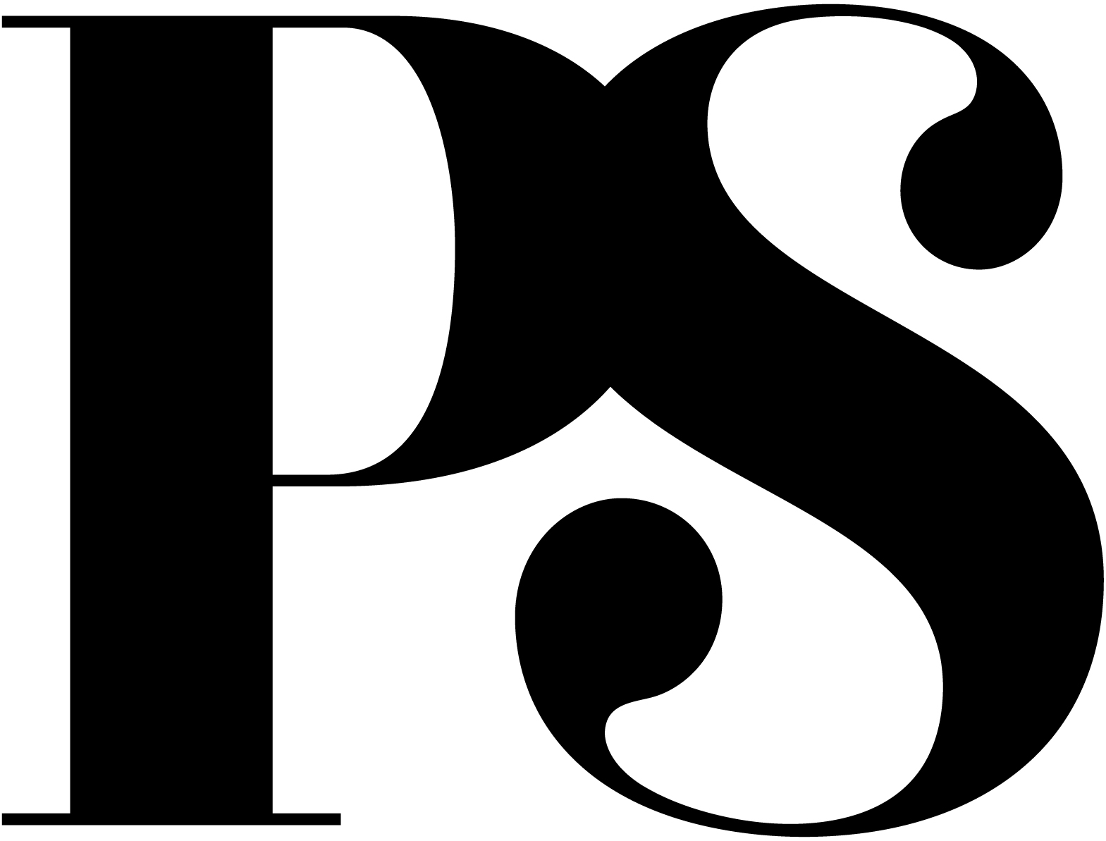 PS